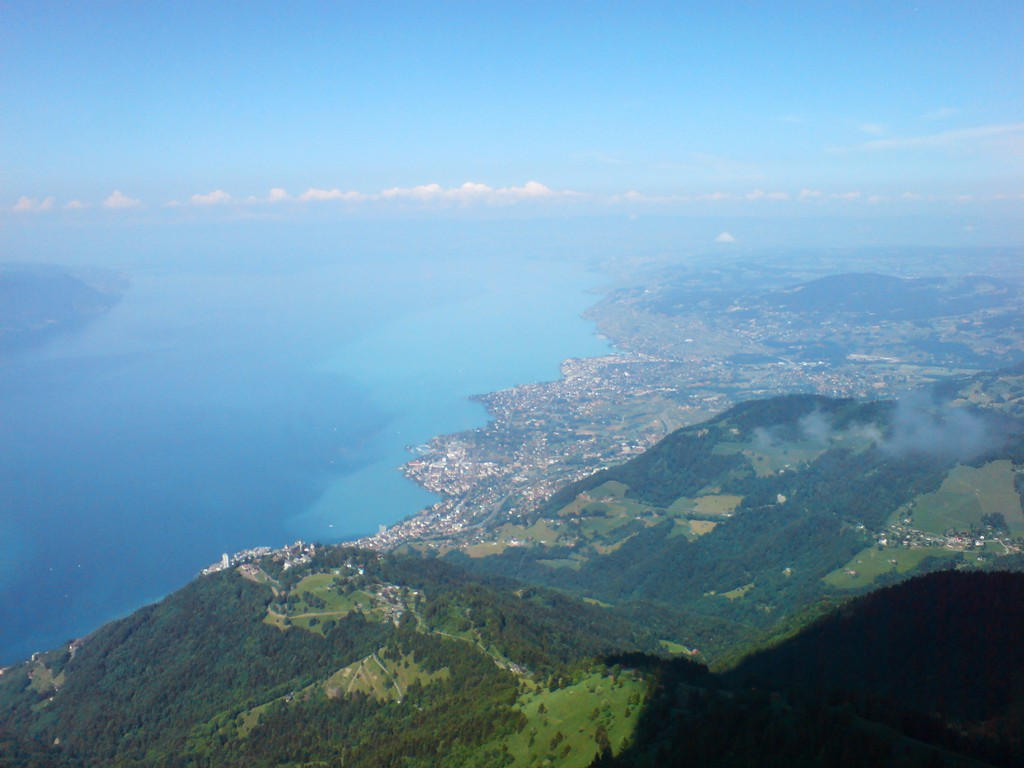 View of Lake Geneva and Montreux from Les Rochers de Naye (2040m).